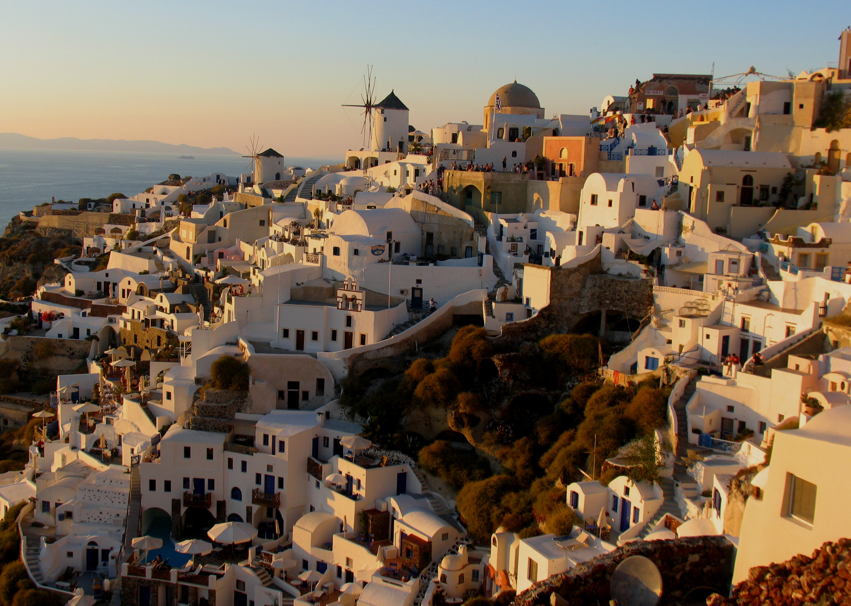 Oia Sunset. Oia is a village of Santorini, Greece.